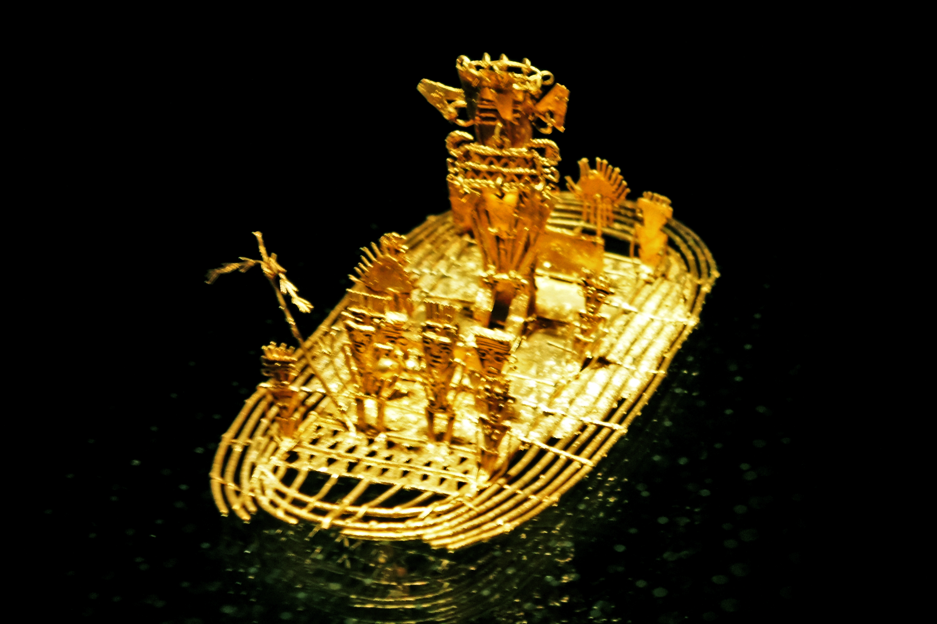 The Muisca Raft is the symbol of El Dorado legend and the most legendary piece exhibited at the Gold Museum of Bogotá, Colombia. This raft made of gold was found in Pasca, Cundinamarca. The raft represents the ceremony that used to take place in Lake Guatavita where the zipa cover his body in gold dust and drop gold and emerald offerings into the lake.